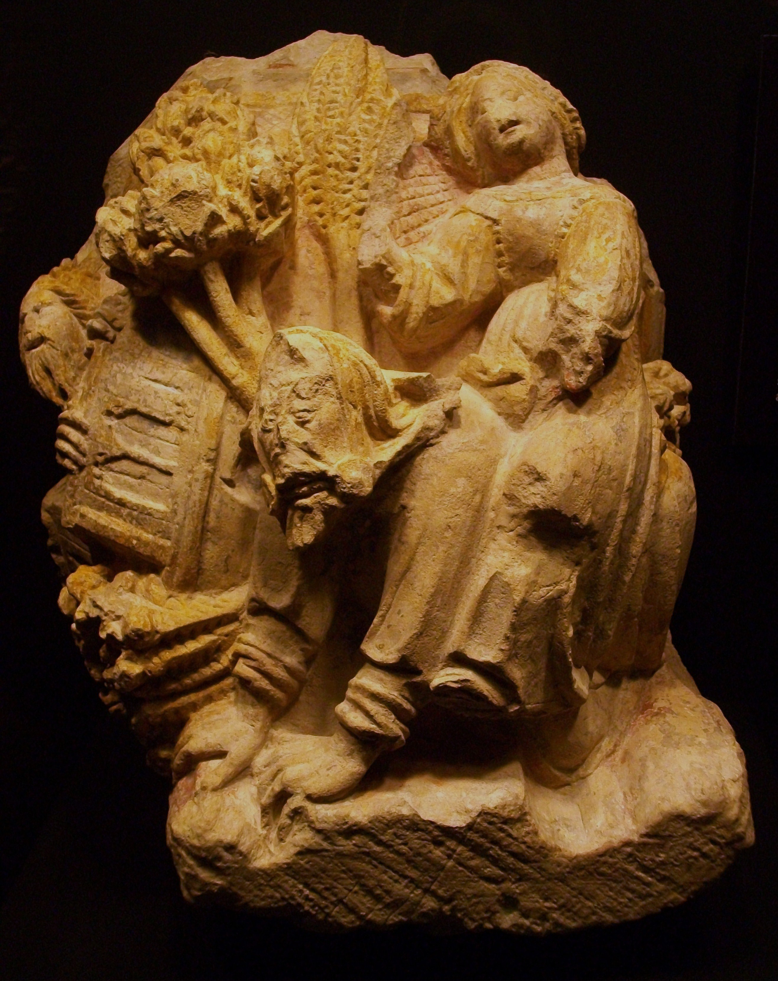 Corbel figures of the tale of Phyllis and Aristotle, from the Pia Almoina buildings. Limestone, 14th century. Historical Museum, Valencia